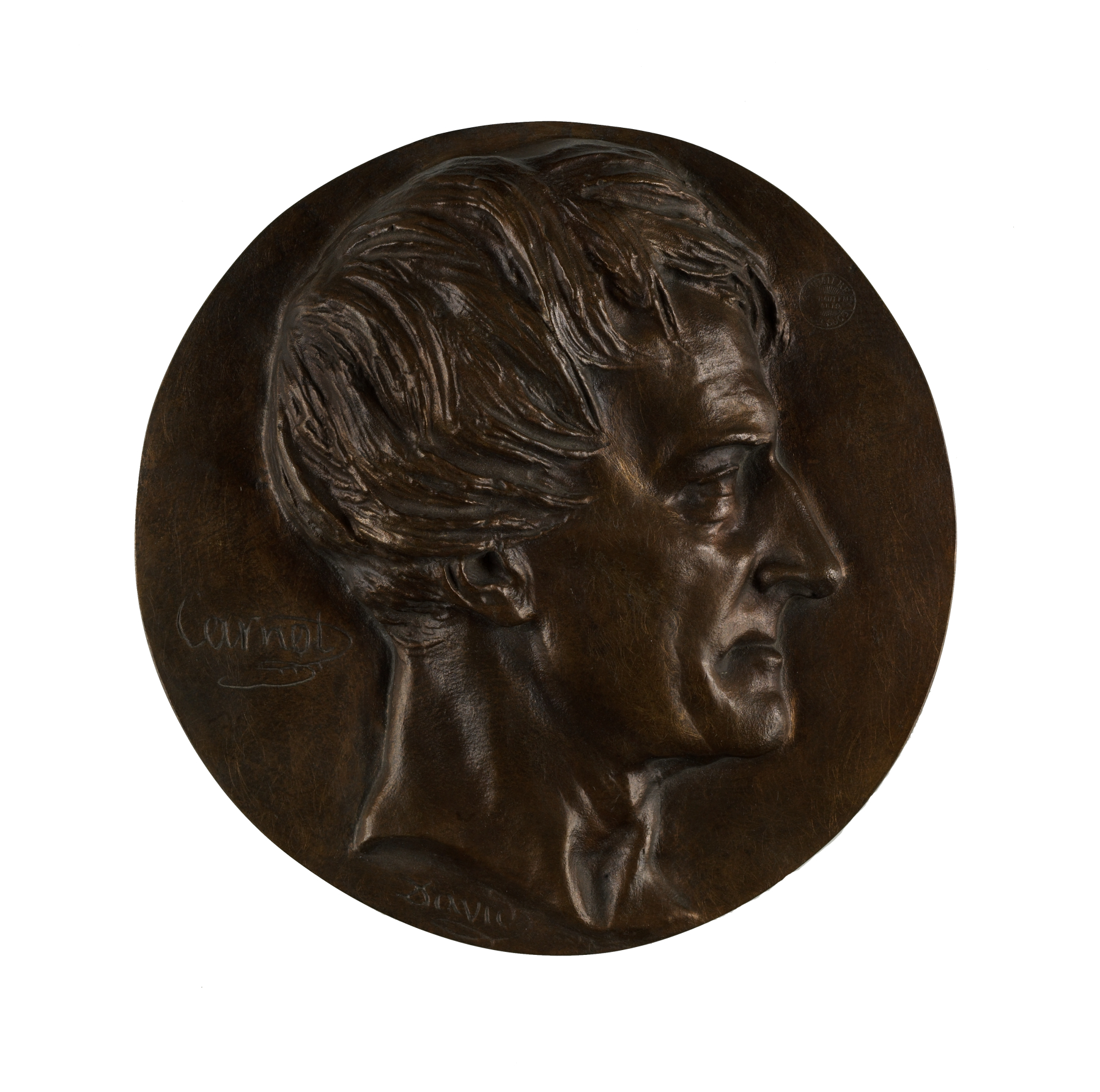 Lazare-Nicholas-Marguerite Carnot (1753-1823), French statement and scientist, served as a deputy to the Legislative Assembly in 1791, as a member of the Convention in 1792, and as a minister of war from 1793 to 1795. He was a member of the Directory in 1795, and of the Tribunate from 1802-1807, governor of Antwerp in 1814, and minister of the interior under Napoleon. He authored "Sur la métaphysique du calcul infinitésimal" in 1797 and "De la défense des places fortes" 1801. He died in Magdebourg in 1823.